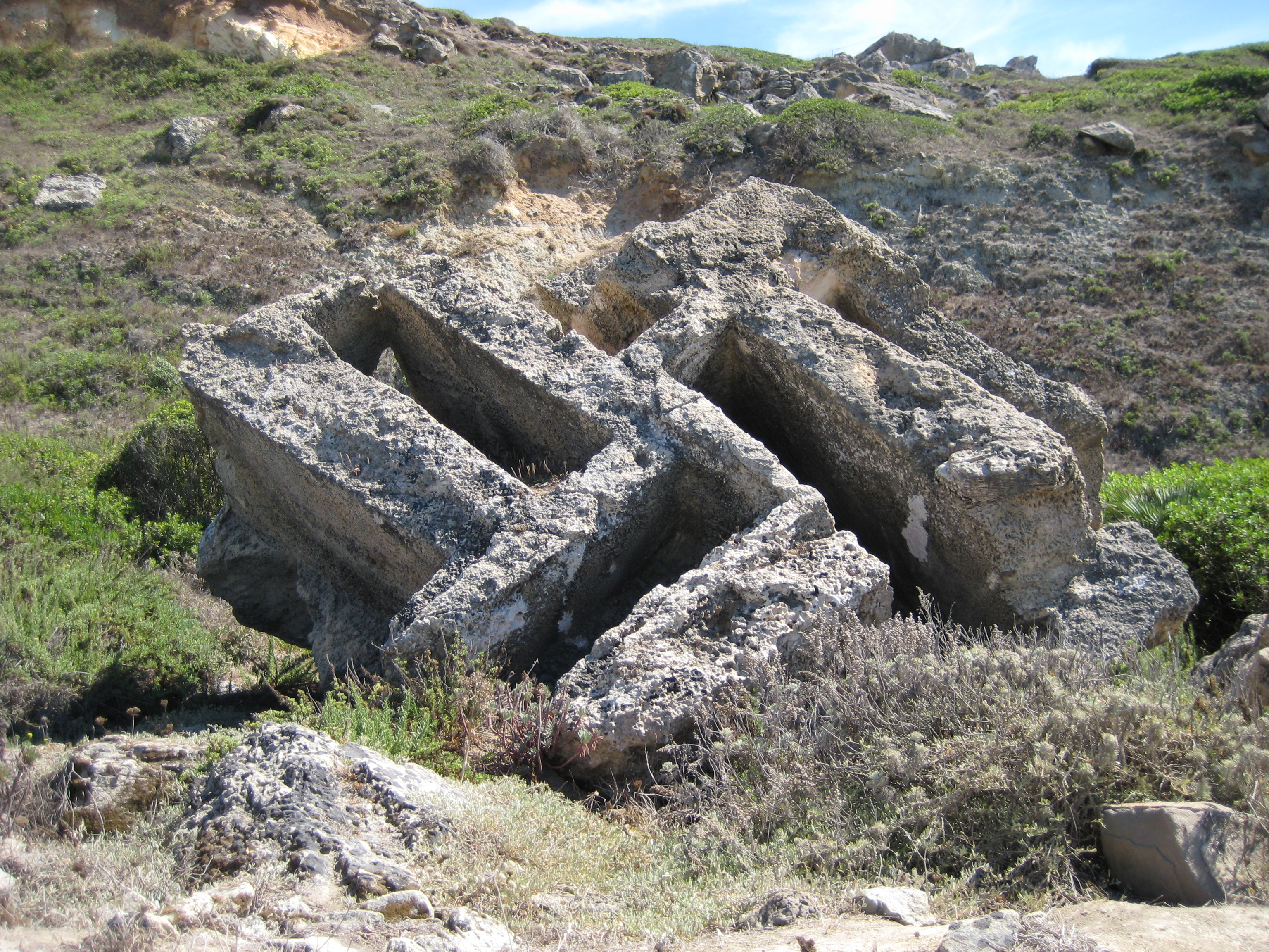 necropolis near Tharros at Capo San Marco, Oristano, Sardinia